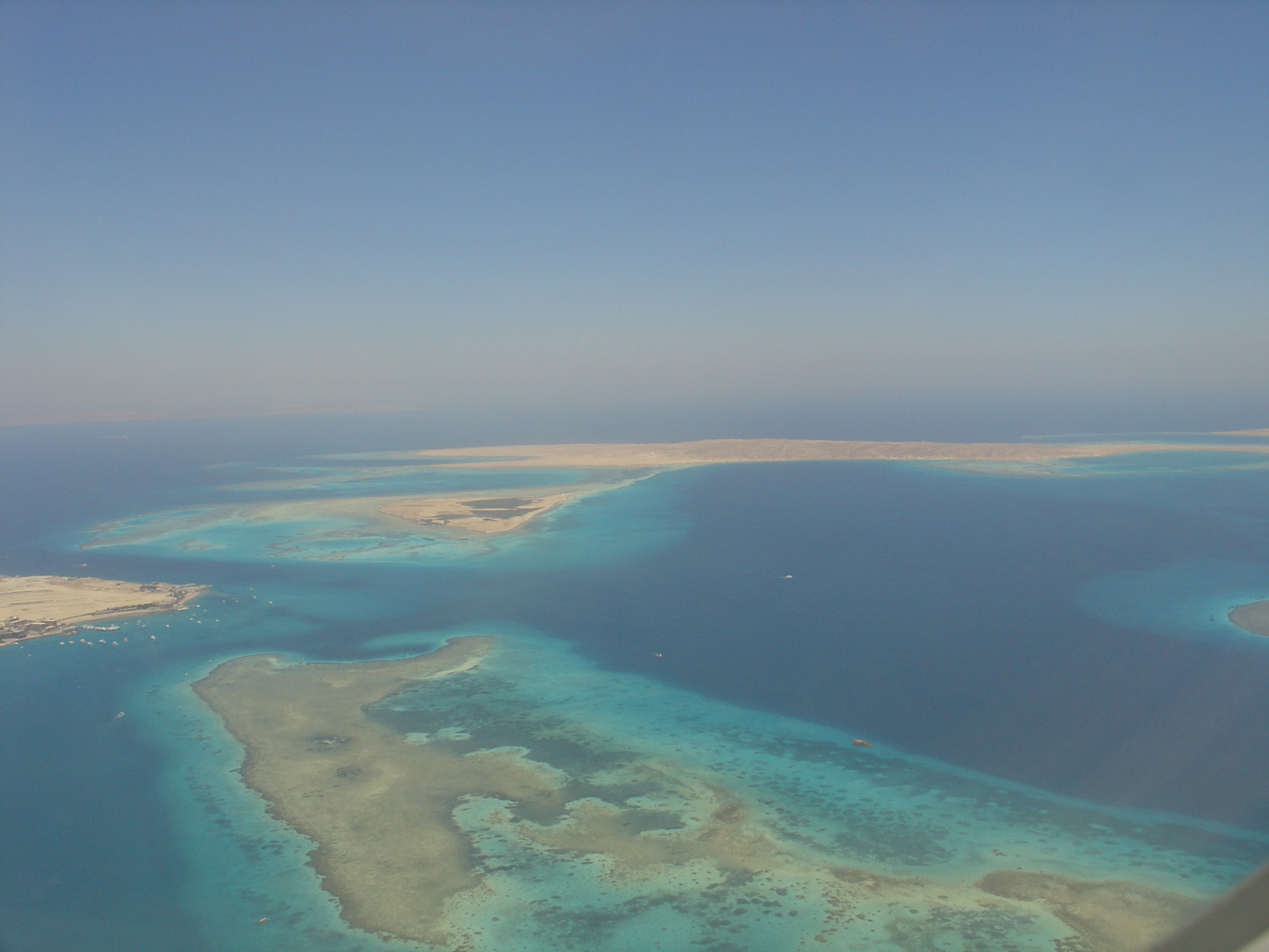 Hurghada from airplane